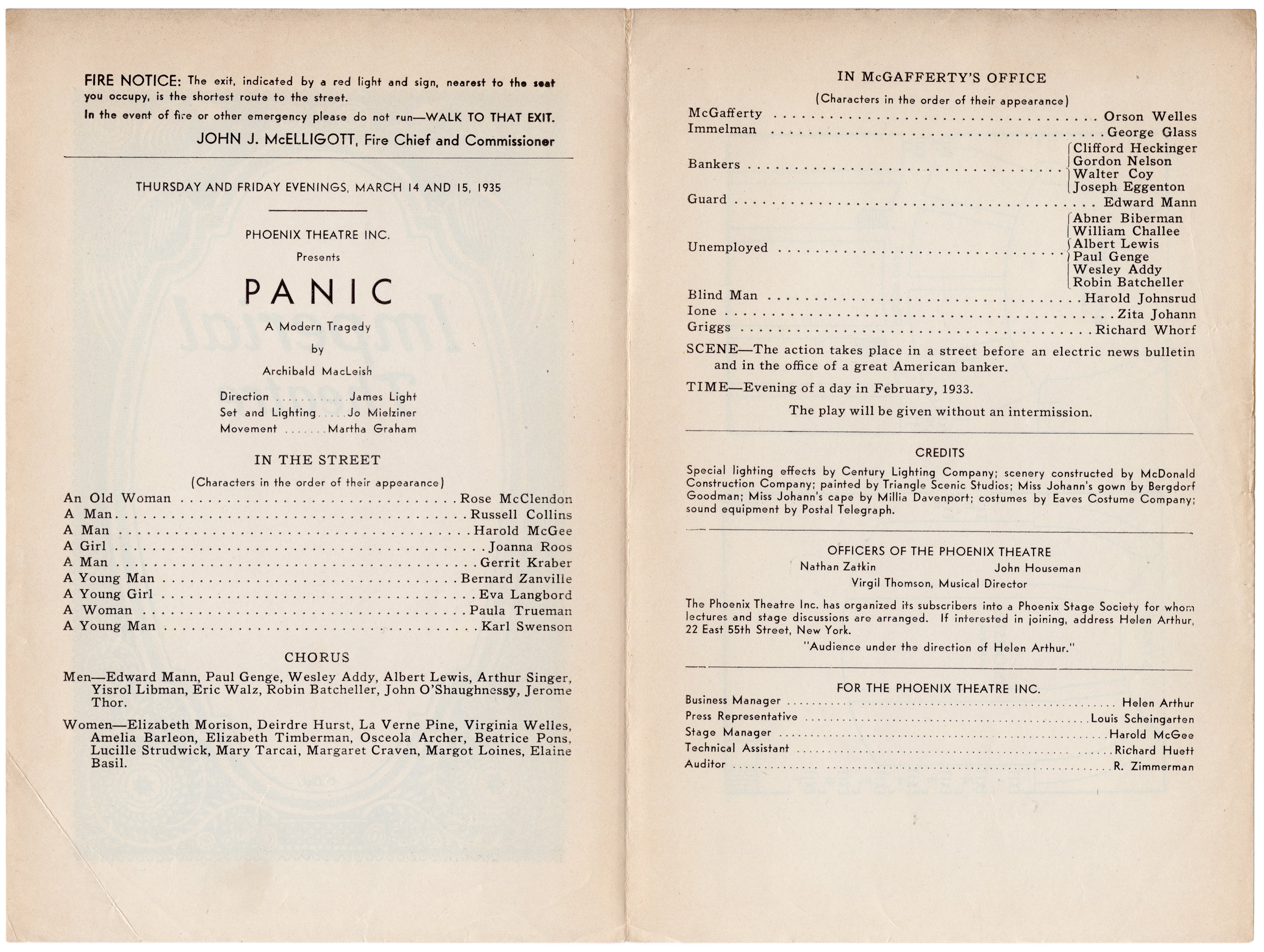 Interior of the playbill for the original production of Archibald MacLeish's Panic, presented March 14–16, 1935, at the Imperial Theatre, New York City, New York